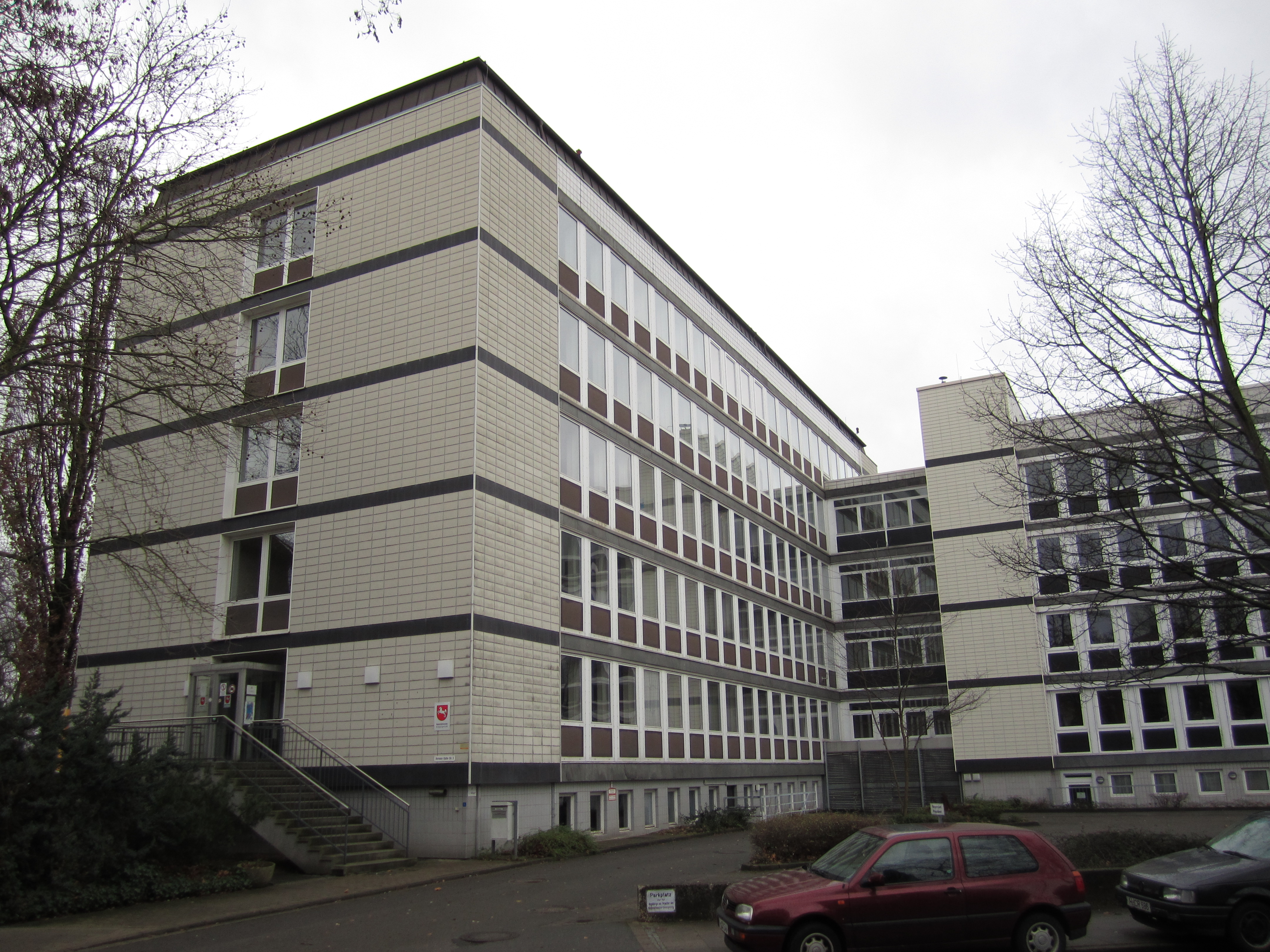 Former Lower Saxony Financial Court, Hanover, Germany.